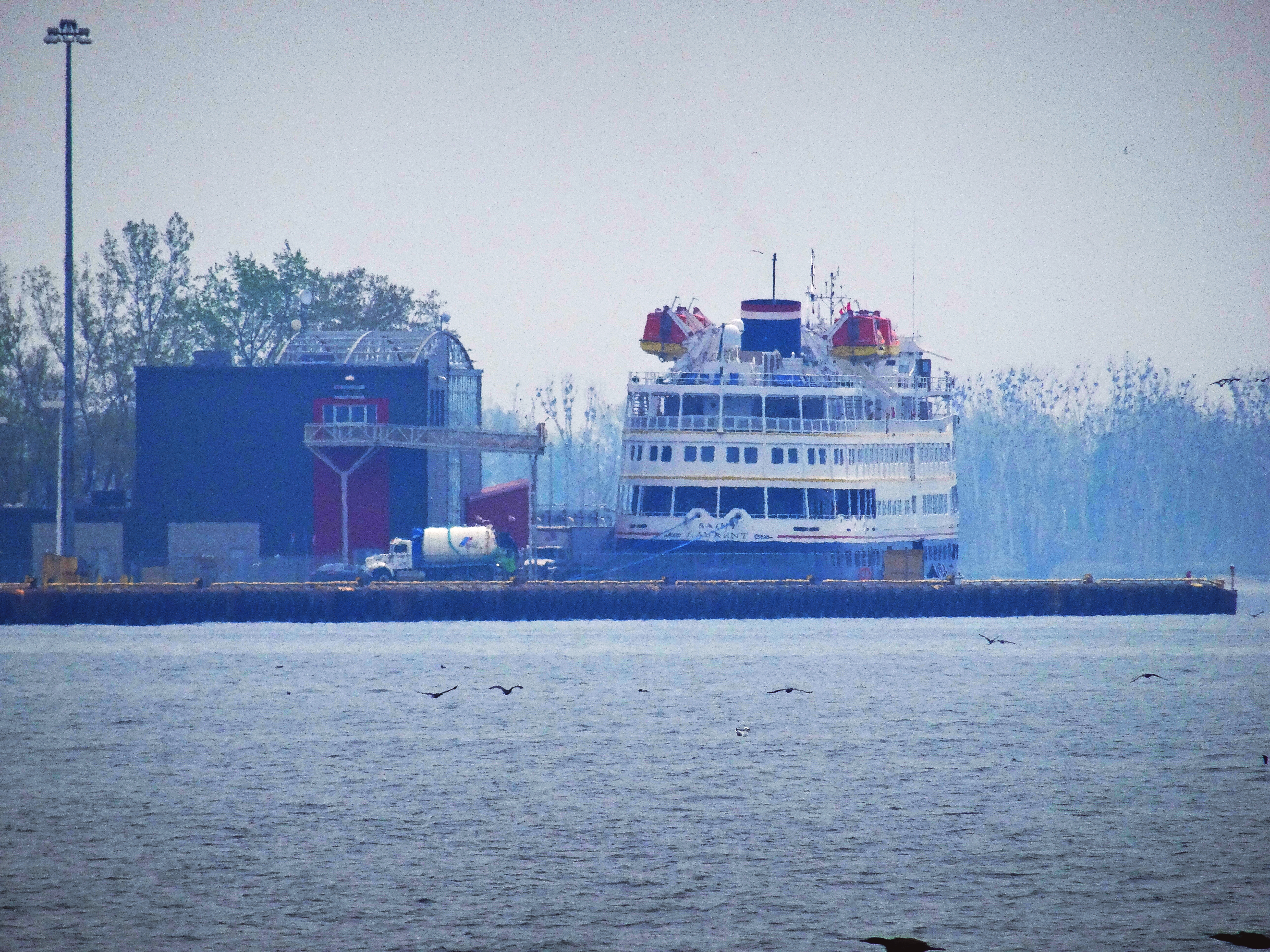 Cruise Ship Saint Laurent, moored at Toronto's International Marine Passenger Terminal.